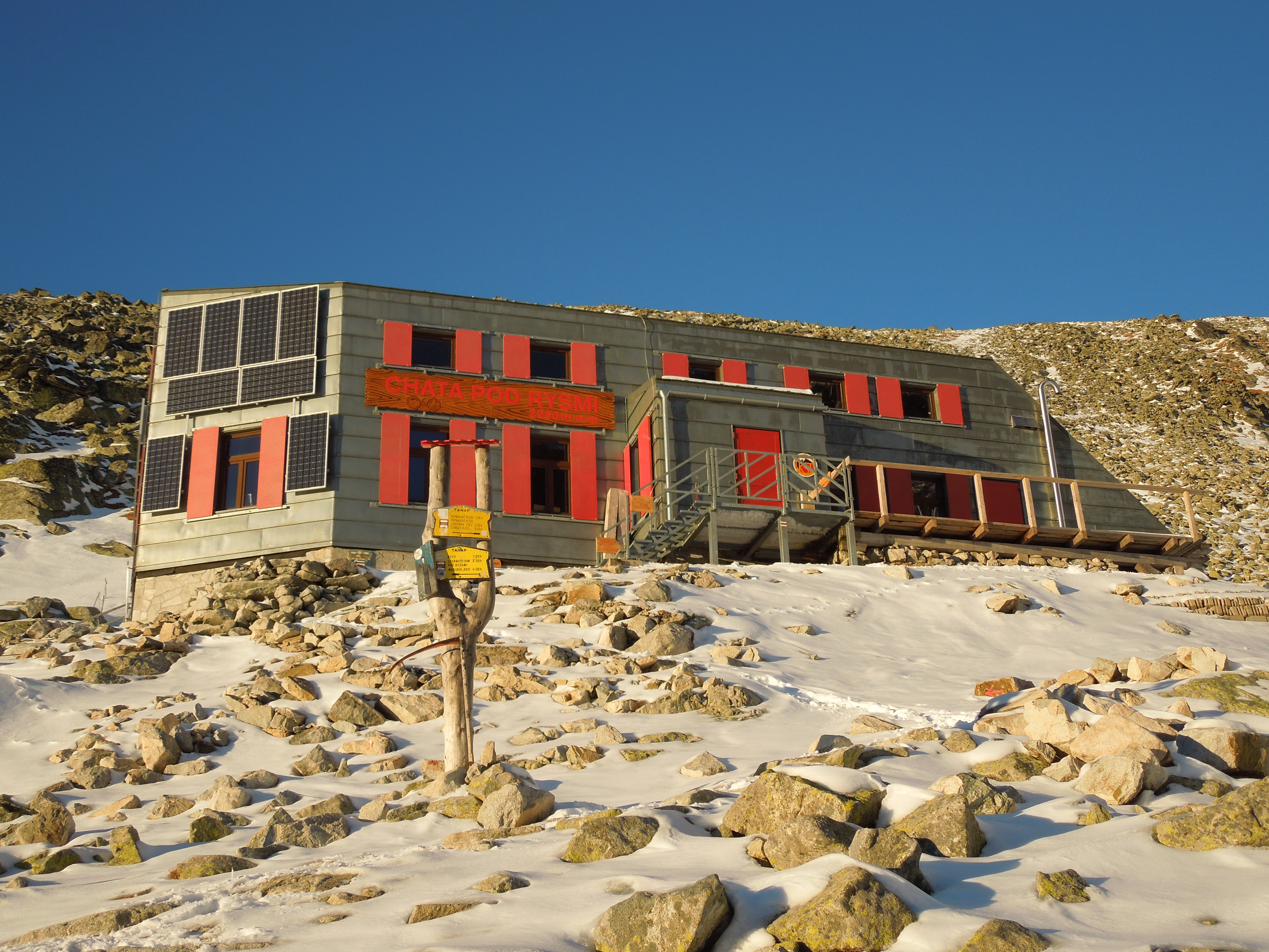 Chata pod Rysmi - the highest built mountain hut in the High Tatras and Slovakia This is a photography of Natura 2000 protected area with ID SKUEV0307